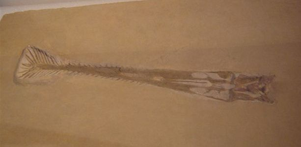 Fossil skull specimen JME-SOS 4580 (previously catalogued as specimen PTHE or PTH 1951.84), referred to the Jurassic pterosaur species Gnathosaurus subulatus. The fossil was found in limestone quarries of Eichstatt, Bavaria and photographed in the Natuurhistorisch Museum van Rotterdam during a temporary pterosaur exposition.